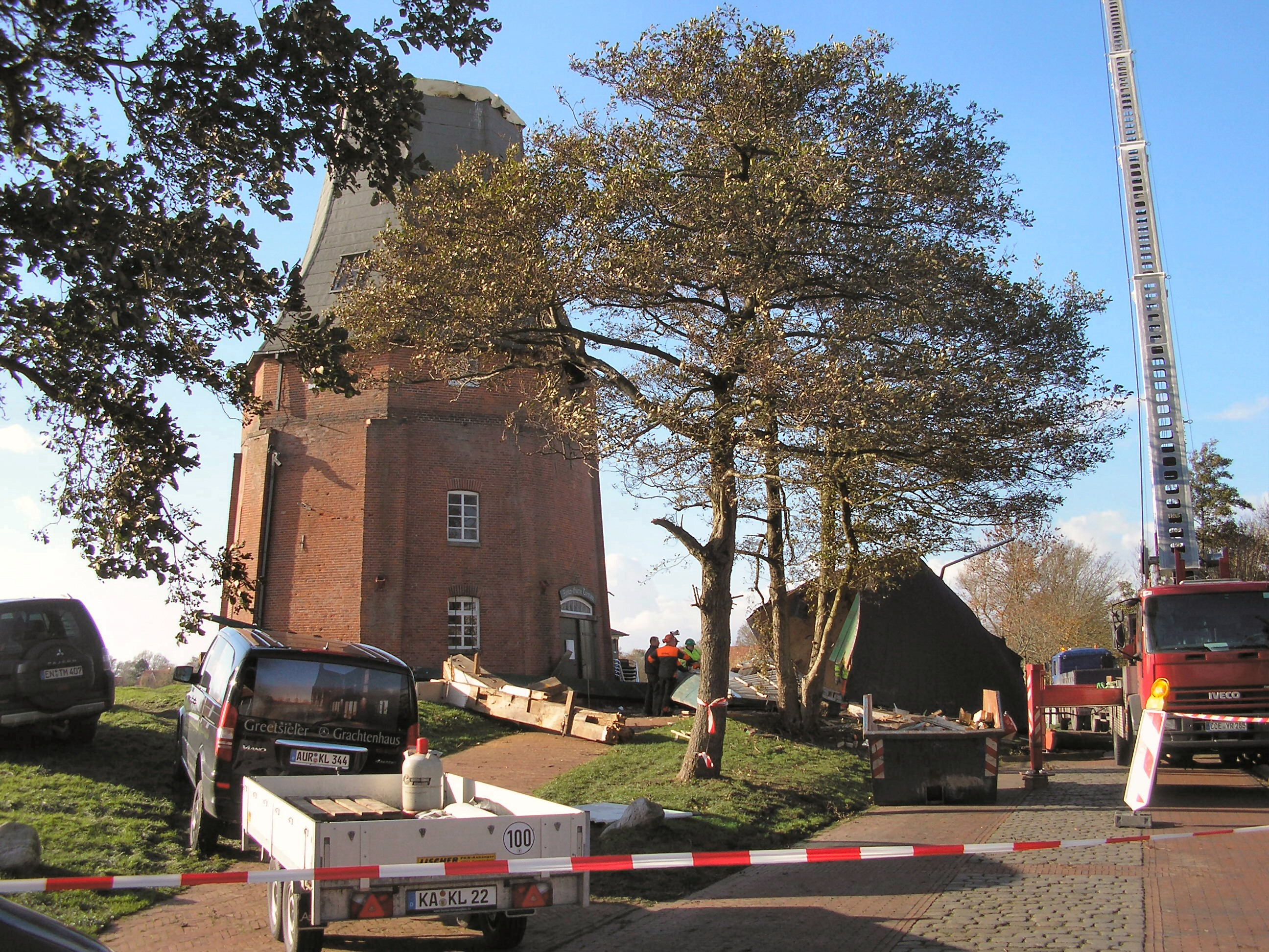 Greetsiel Green Mill, damaged in October 2013 by Cyclone Christian in Greetsiel, Krummhörn, Lower Saxony, Germany